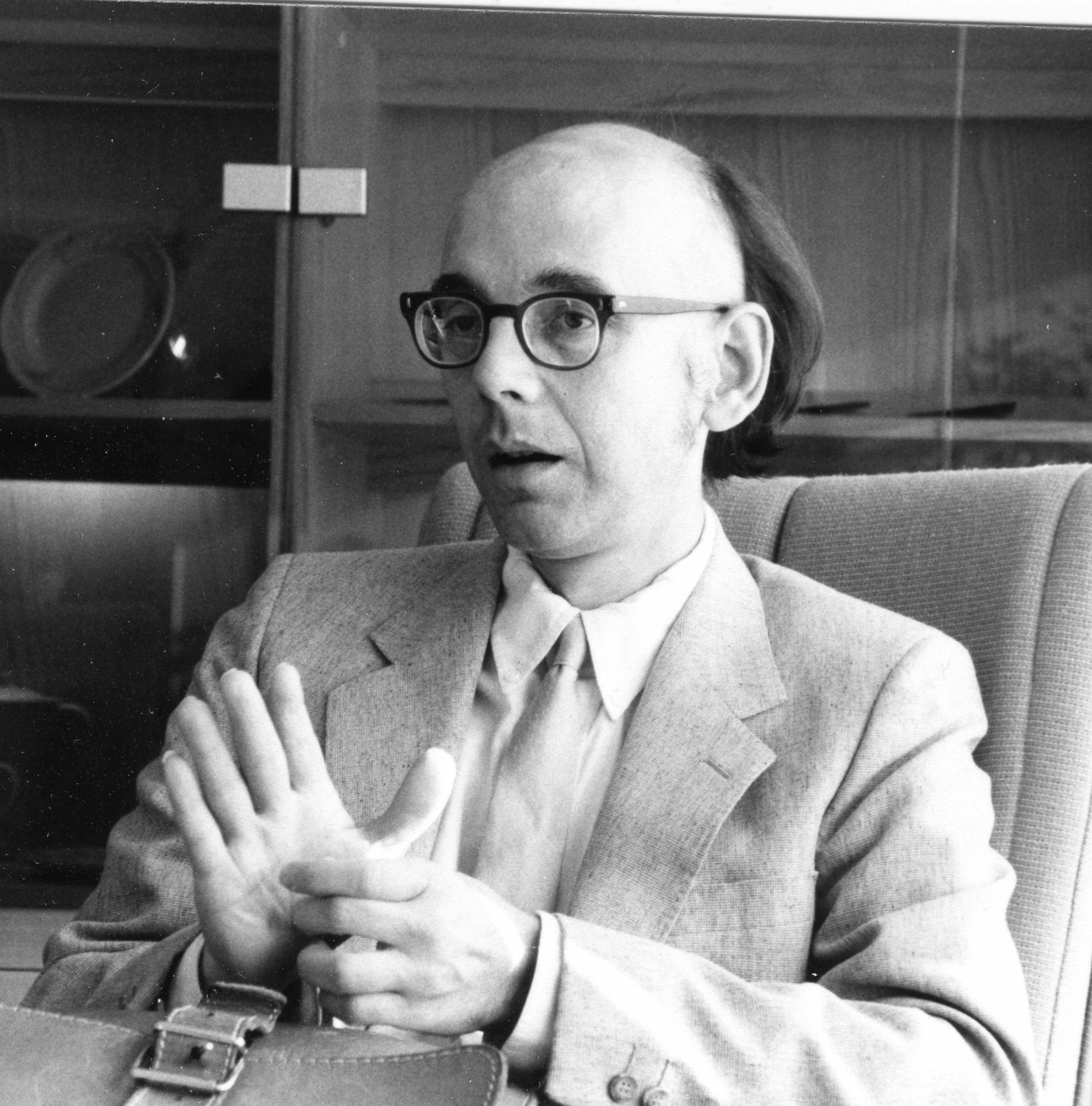 Photograph of Thomas K. Donaldson